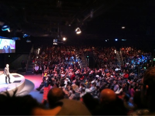 Inspire Church worship